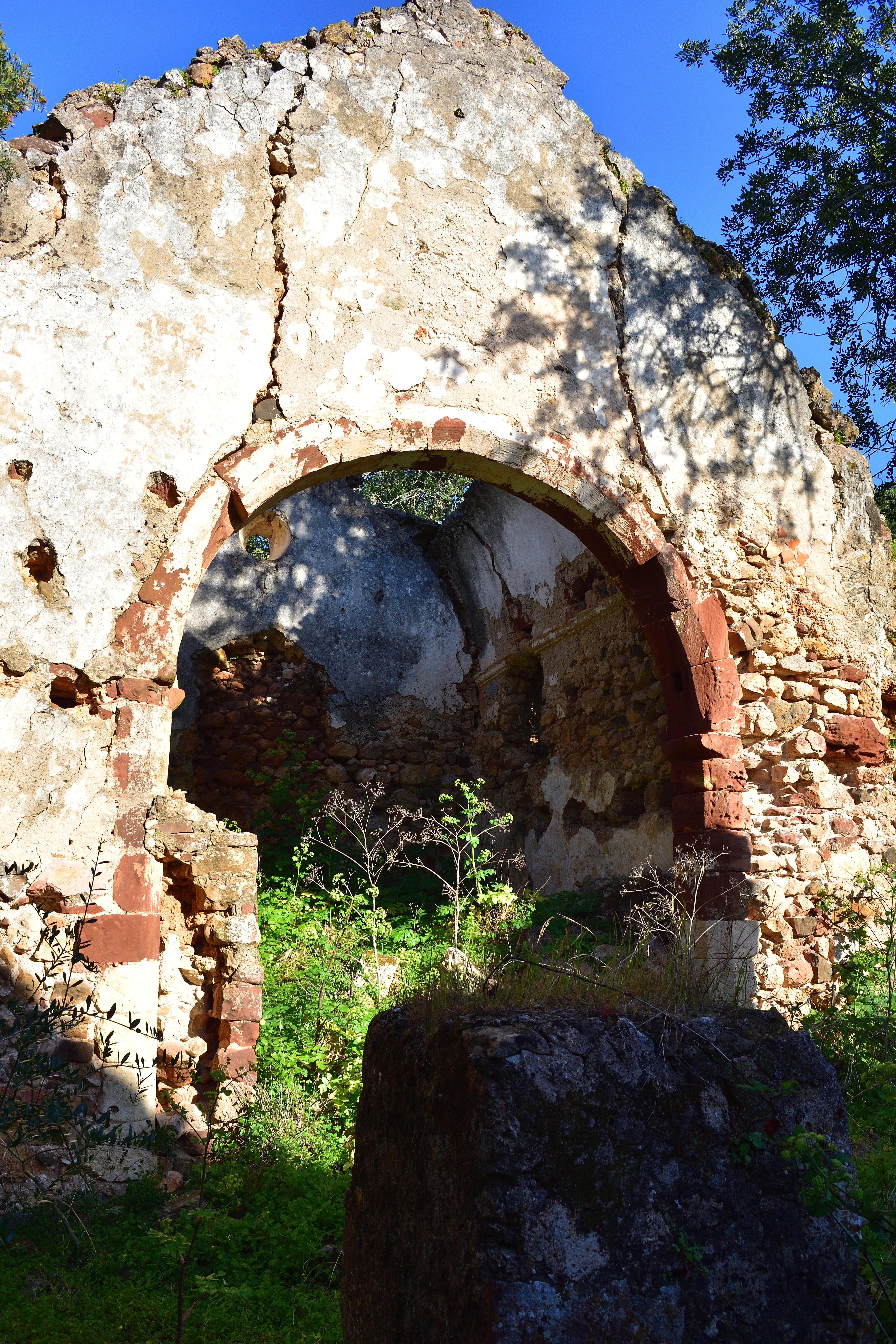 Stone arch at Senhora do Verde church, in Algarve, Portugal.